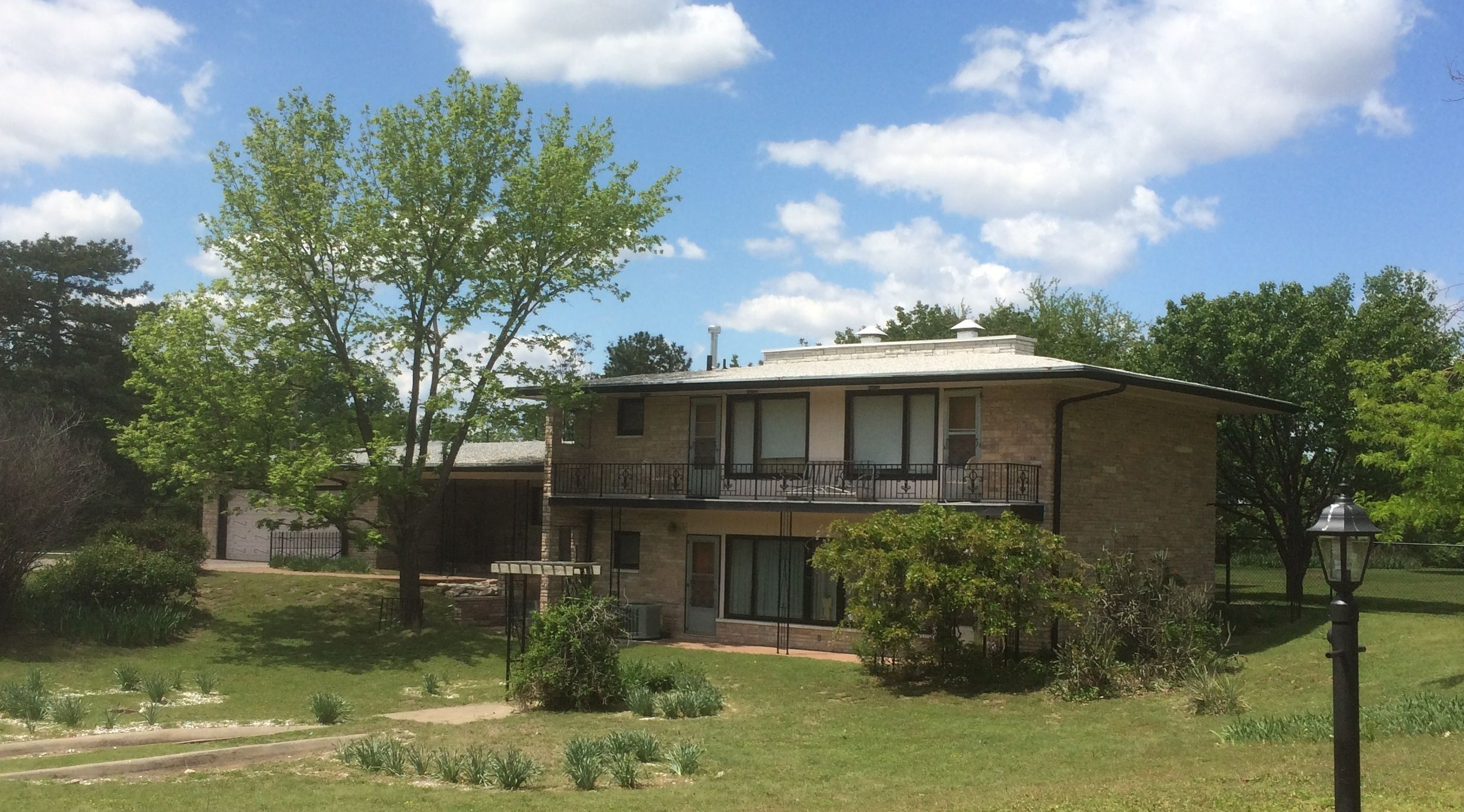 The Elizabeth McLean House, located at 2359 N. McLean Boulevard in Wichita, Kansas. The property is listed on both the State and National Registers of Historic Places.